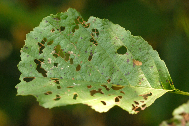 Incurvaria pectinea from Commanster, Belgian High Ardennes .